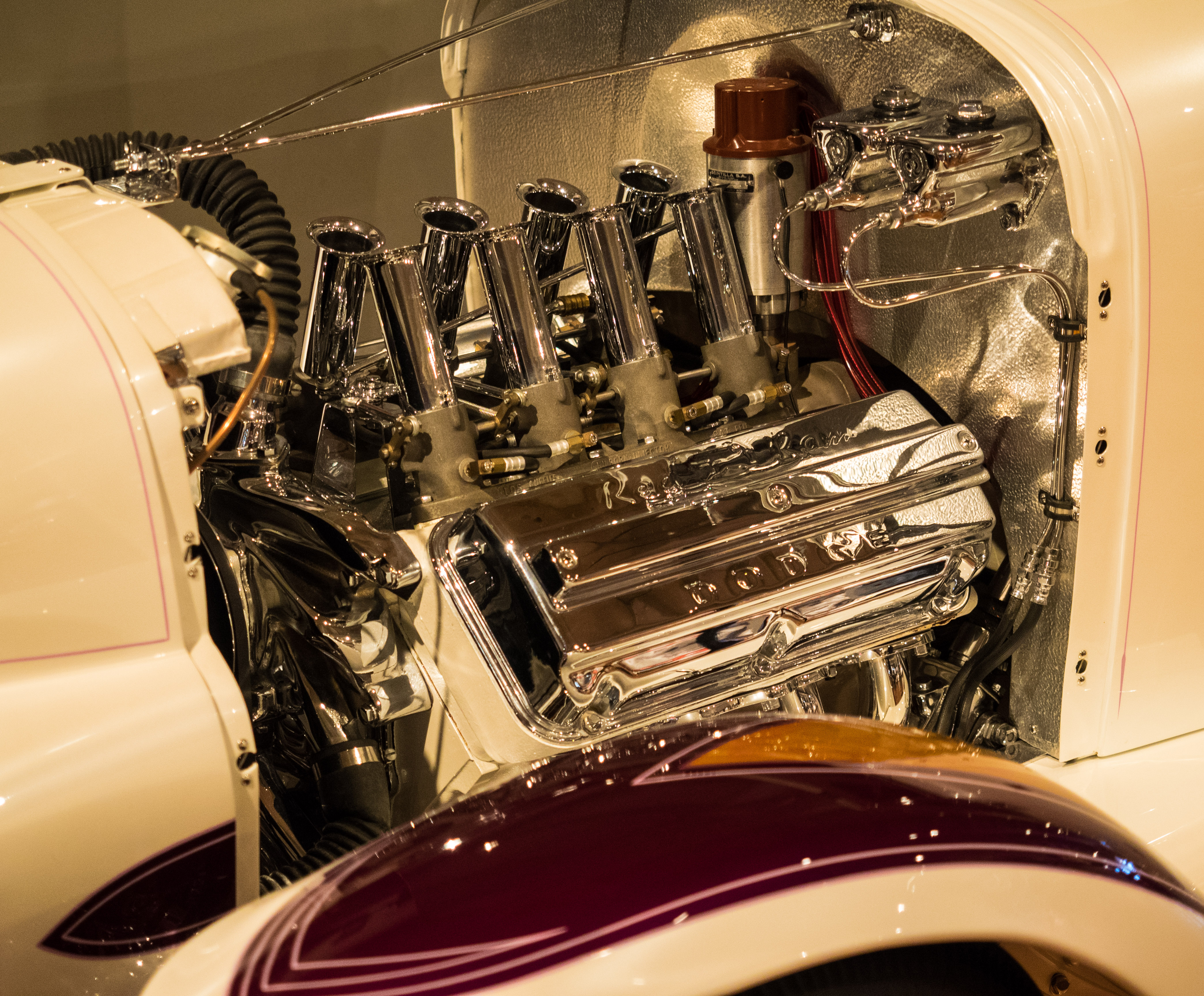 Ala Kart 1929 Ford Roadster Pickup engine view.